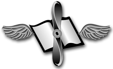 US Navy Aviation Maintenance Administrationman (AZ). A winged two-bladed propeller centered on an open book.